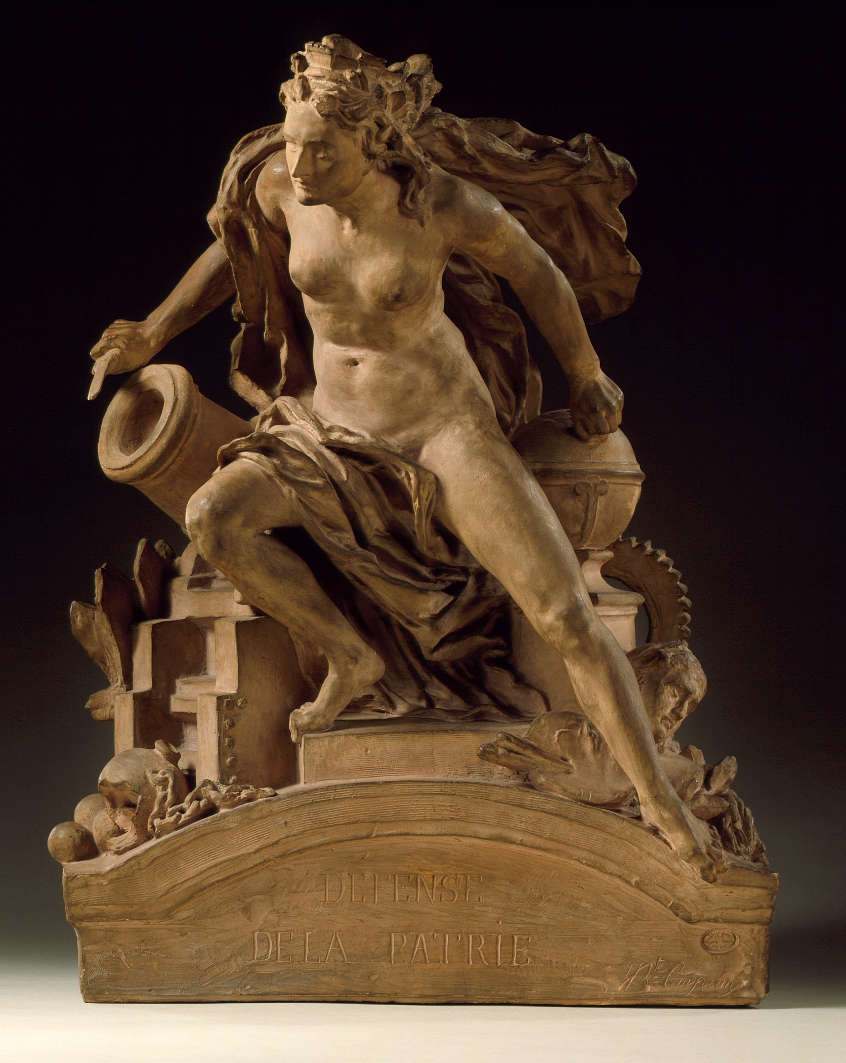 France, 1869-1873 Sculpture Terracotta Height: 20 1/2 x 16 x 11 in. (52.07 x 40.64 x 27.94 cm) Gift of Iris and B. Gerald Cantor Foundation (M.91.138) European Sculpture Currently on public view: Ahmanson Building, floor 3